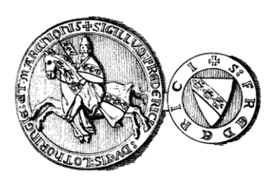 Frederick II, Duke of Lorraine